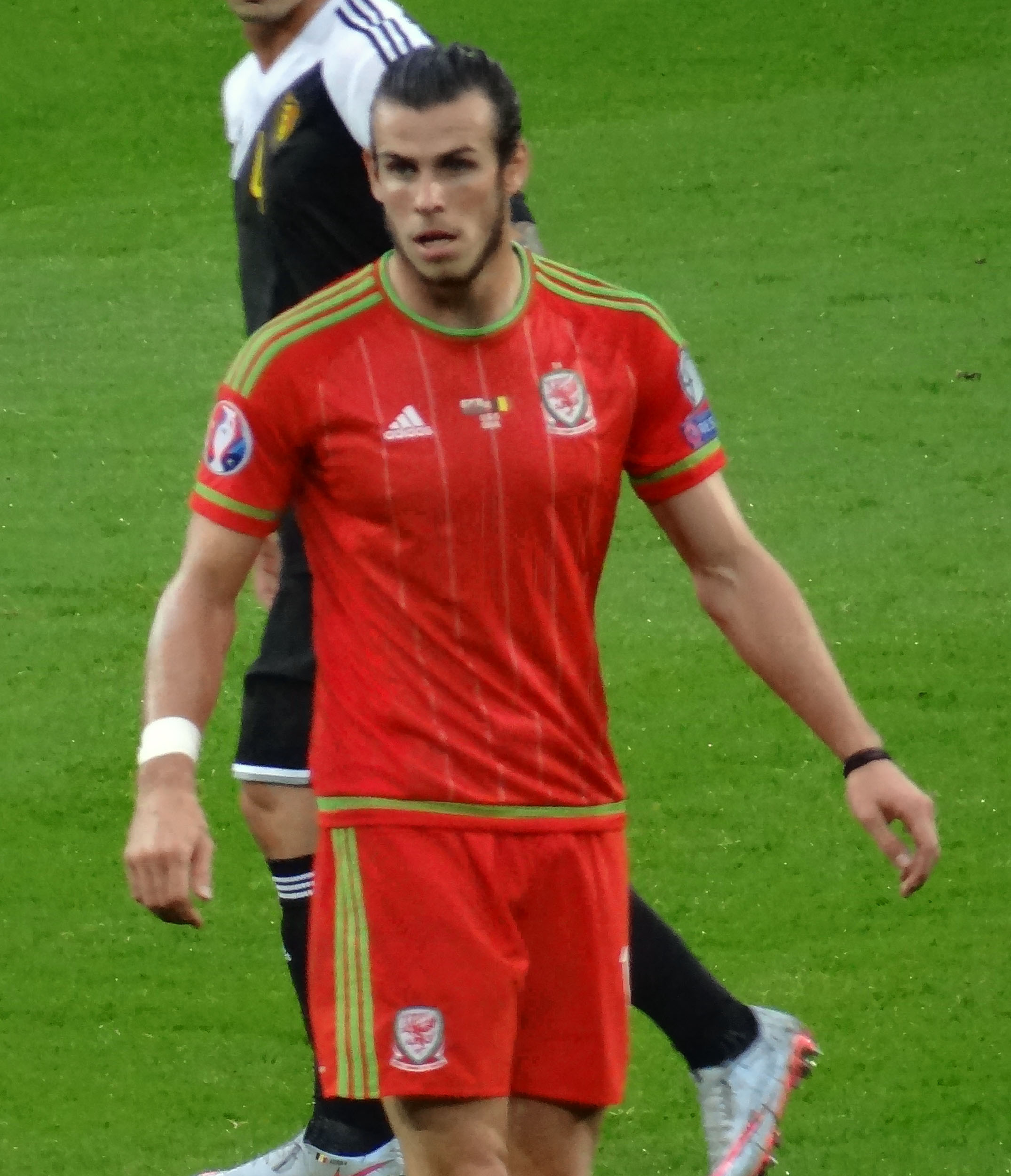 Gareth Bale playing for Wales in 2015.